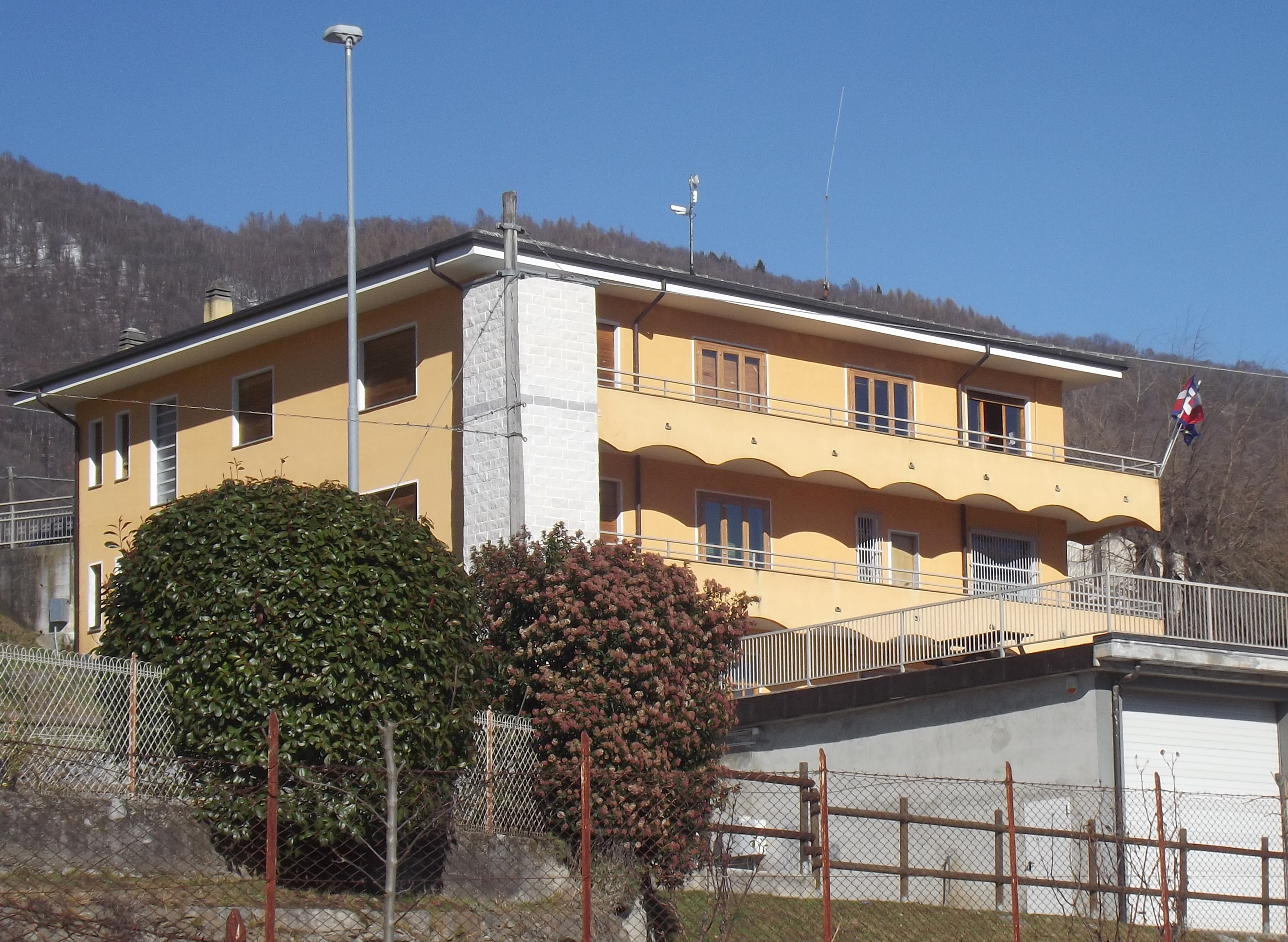 Canischio (TO, Italy): town hall